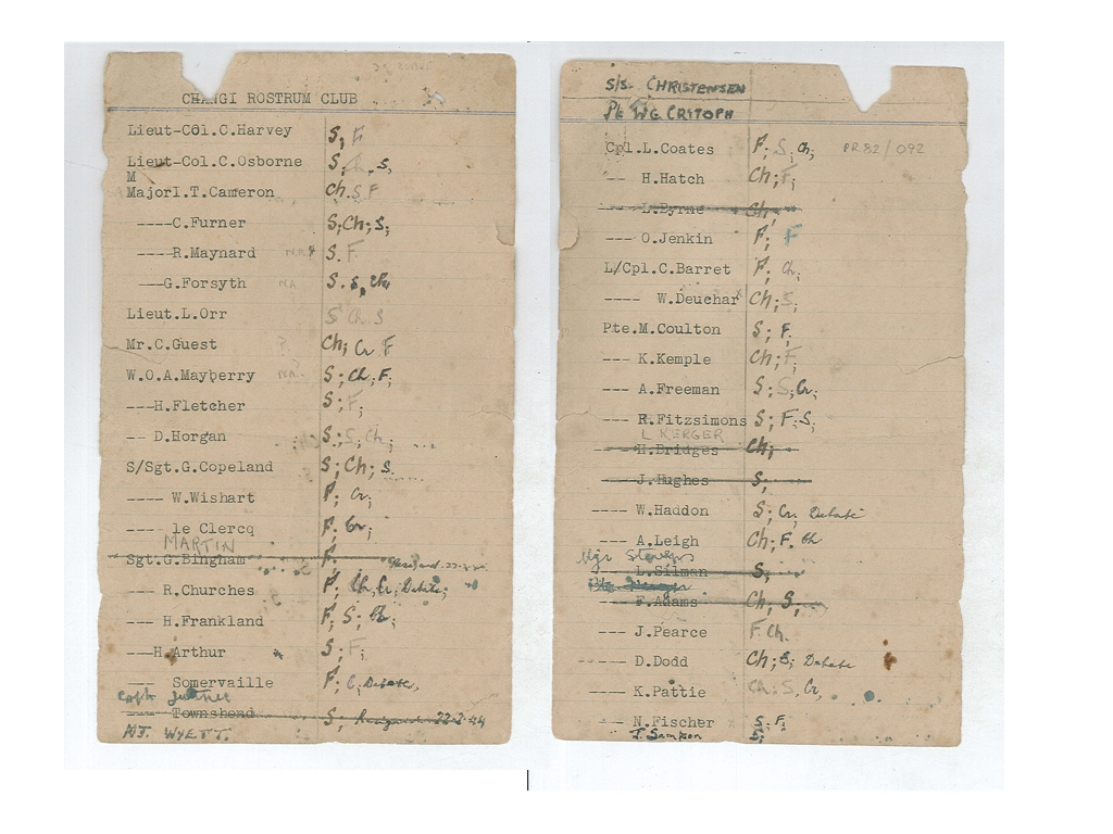 AGH Rostrum - Changi - Membership List